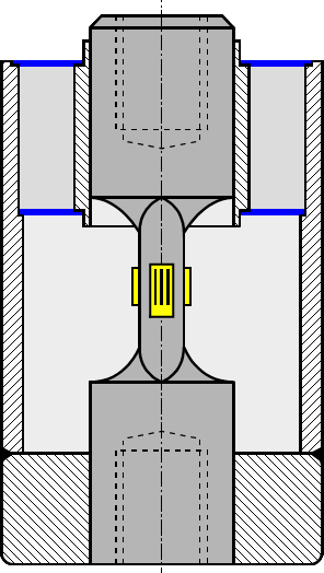 load cell spring element, type push-pull rod